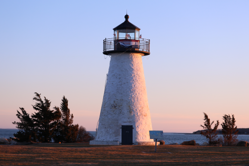 Ned Point Lighthouse at Sunset